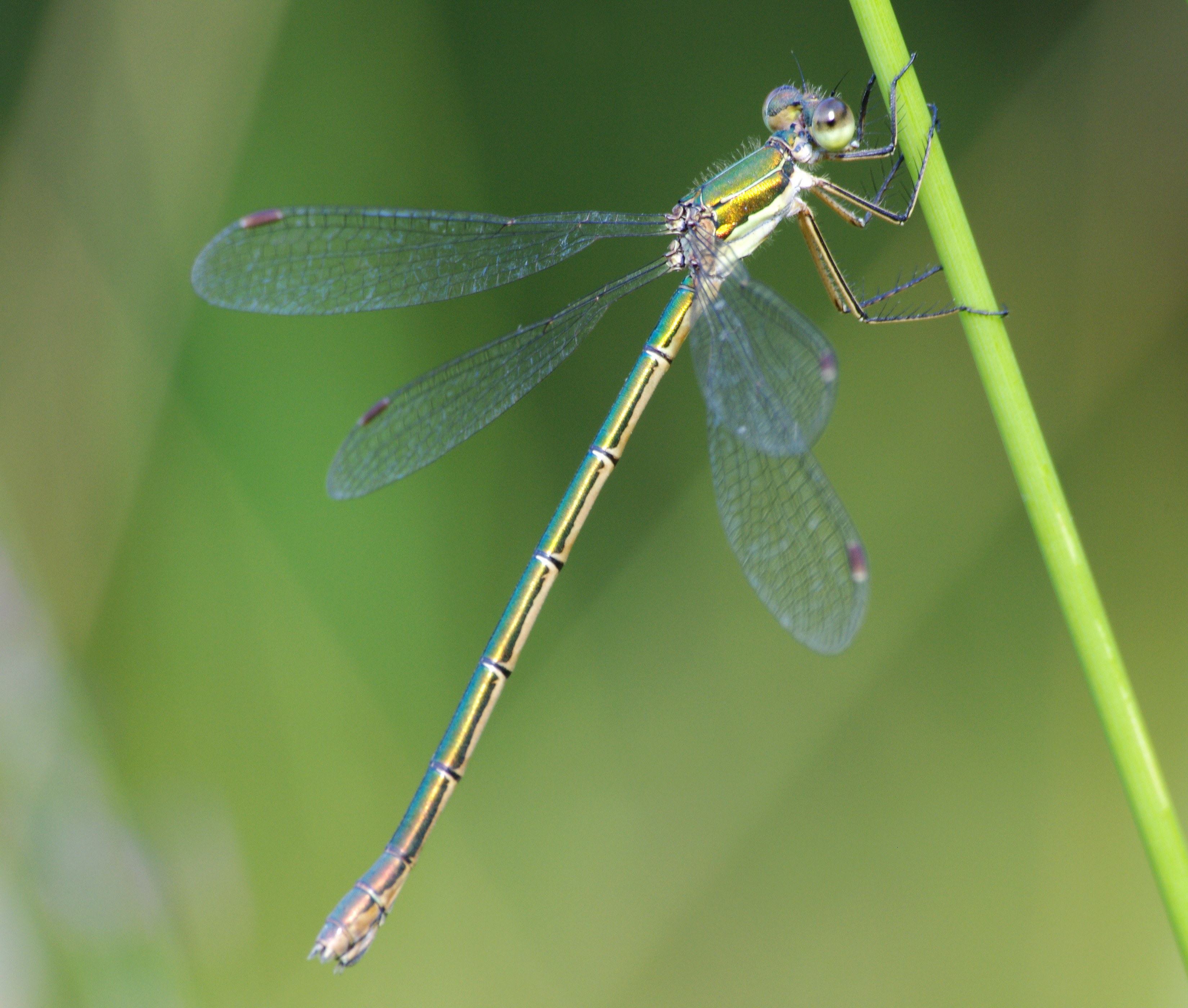 The Small Spreadwing, Lestes virens vestalis, female specimen. Total length: ~35 mm.